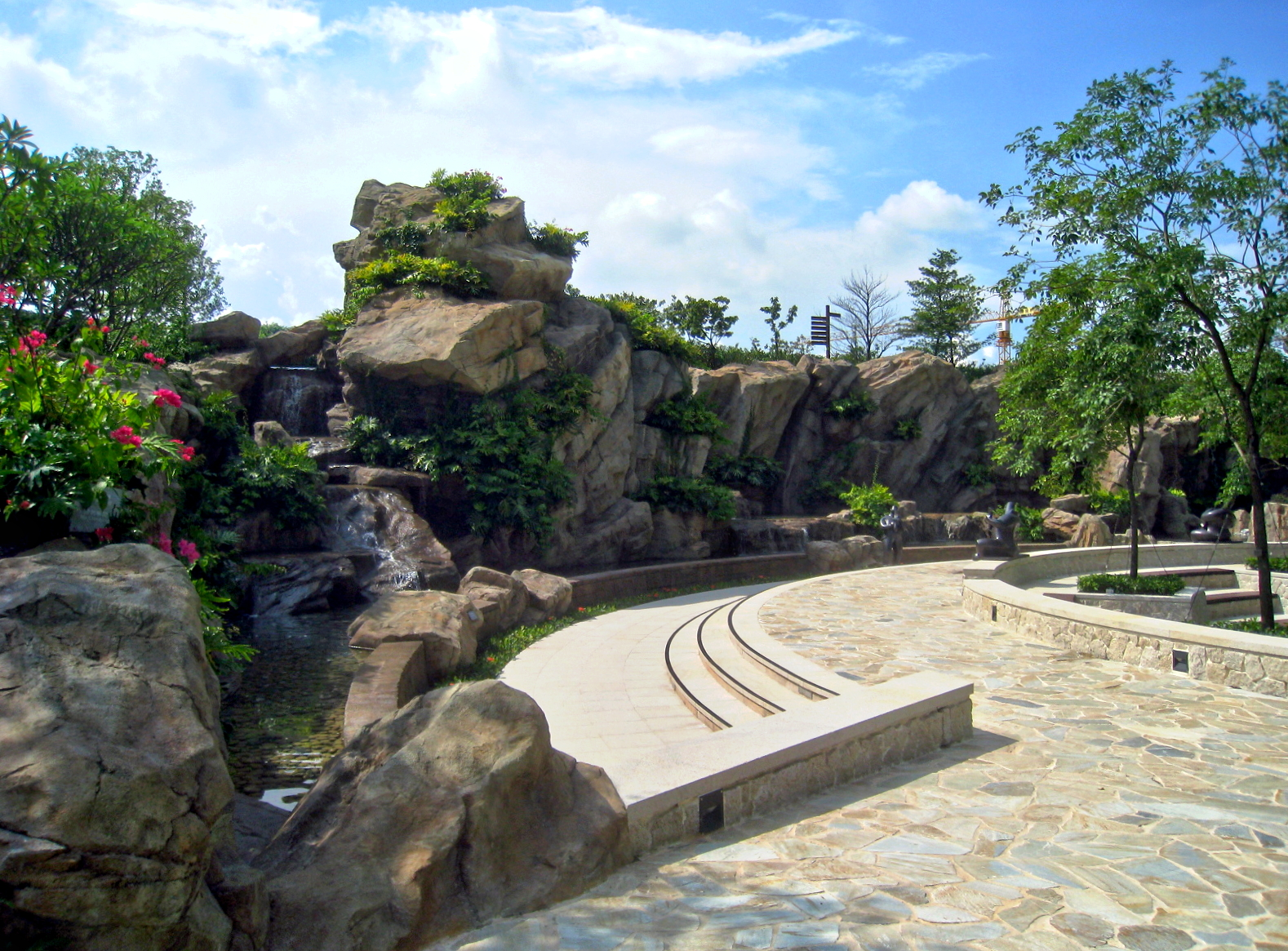 LOHAS Park The Park Waterfall